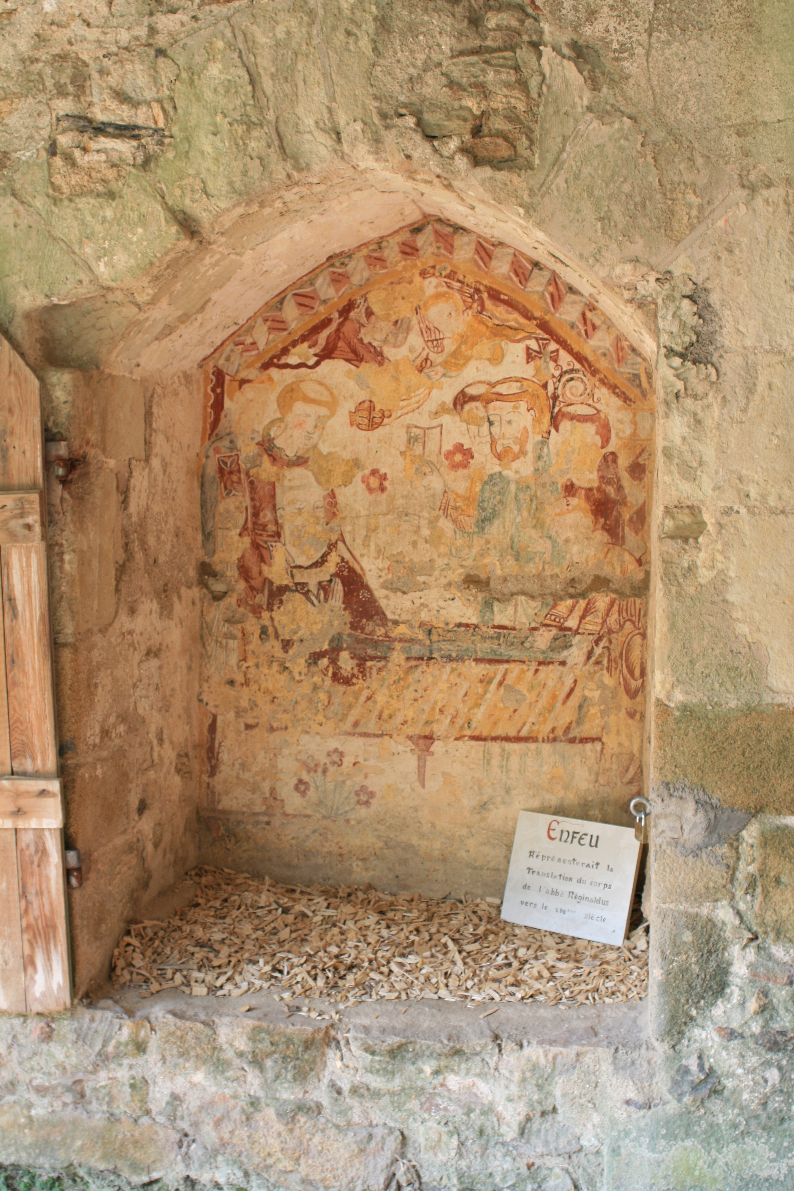 "Enfeu", showing the transportation of the body from reginaldus, abbey, circa 10th century This building is en partie classé, en partie inscrit au titre des Monuments Historiques. .